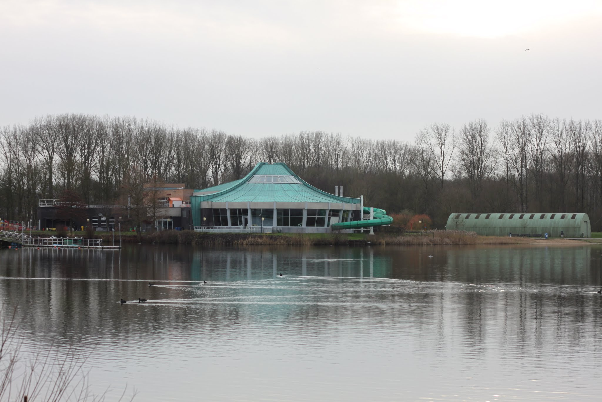 De Gavers (Geraardsbergen)